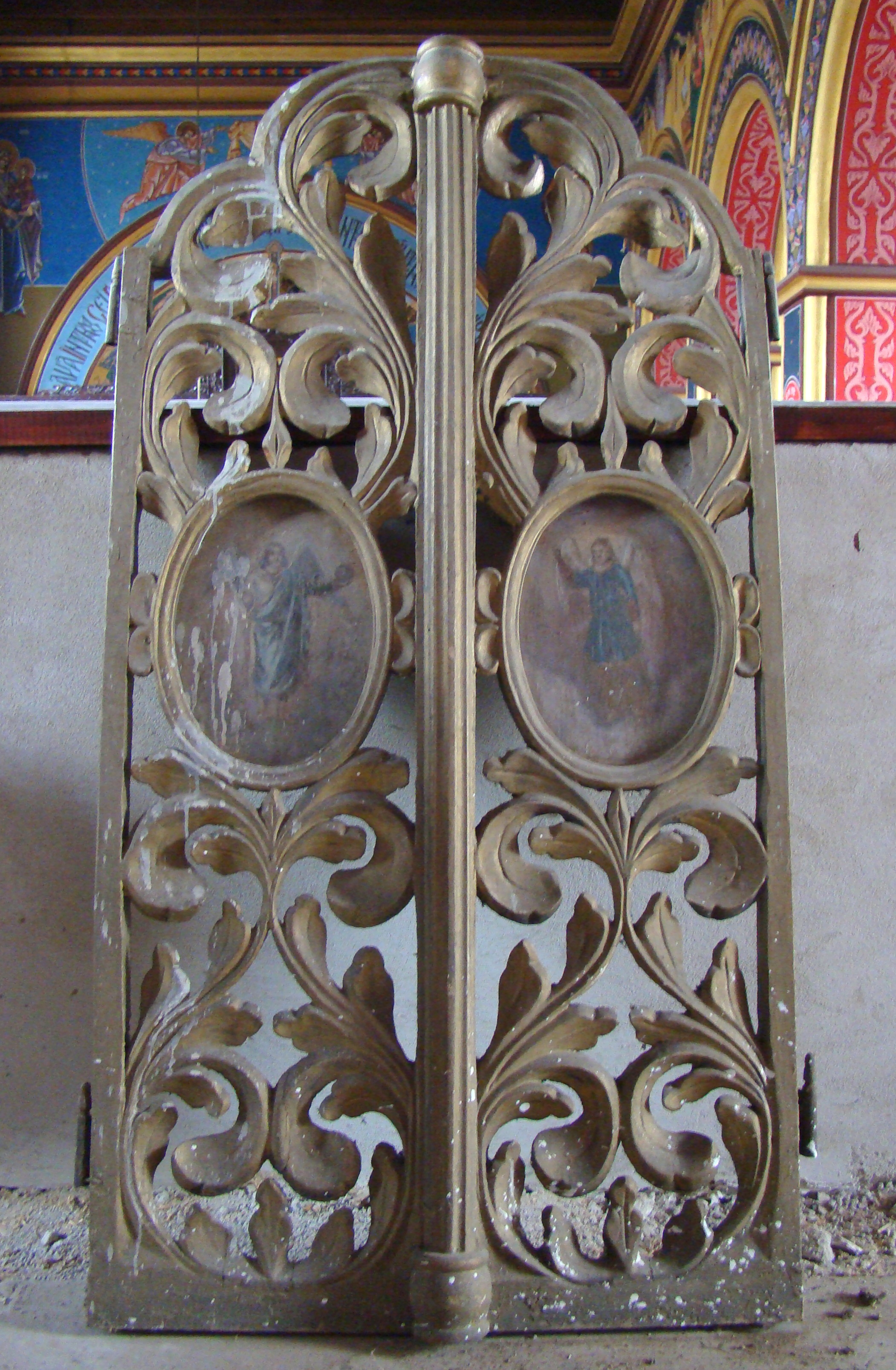 Imperial doors of the wooden church in Domnești, Bistrița-Năsăud county, Romania